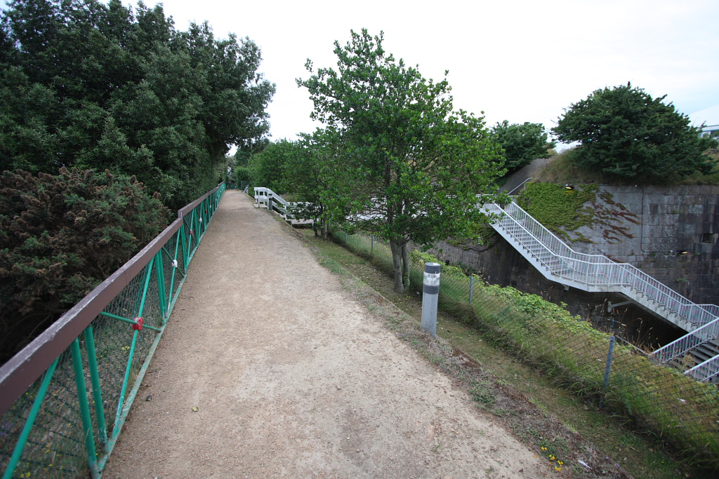 Eastern rampart at Fort Regent, Jersey.